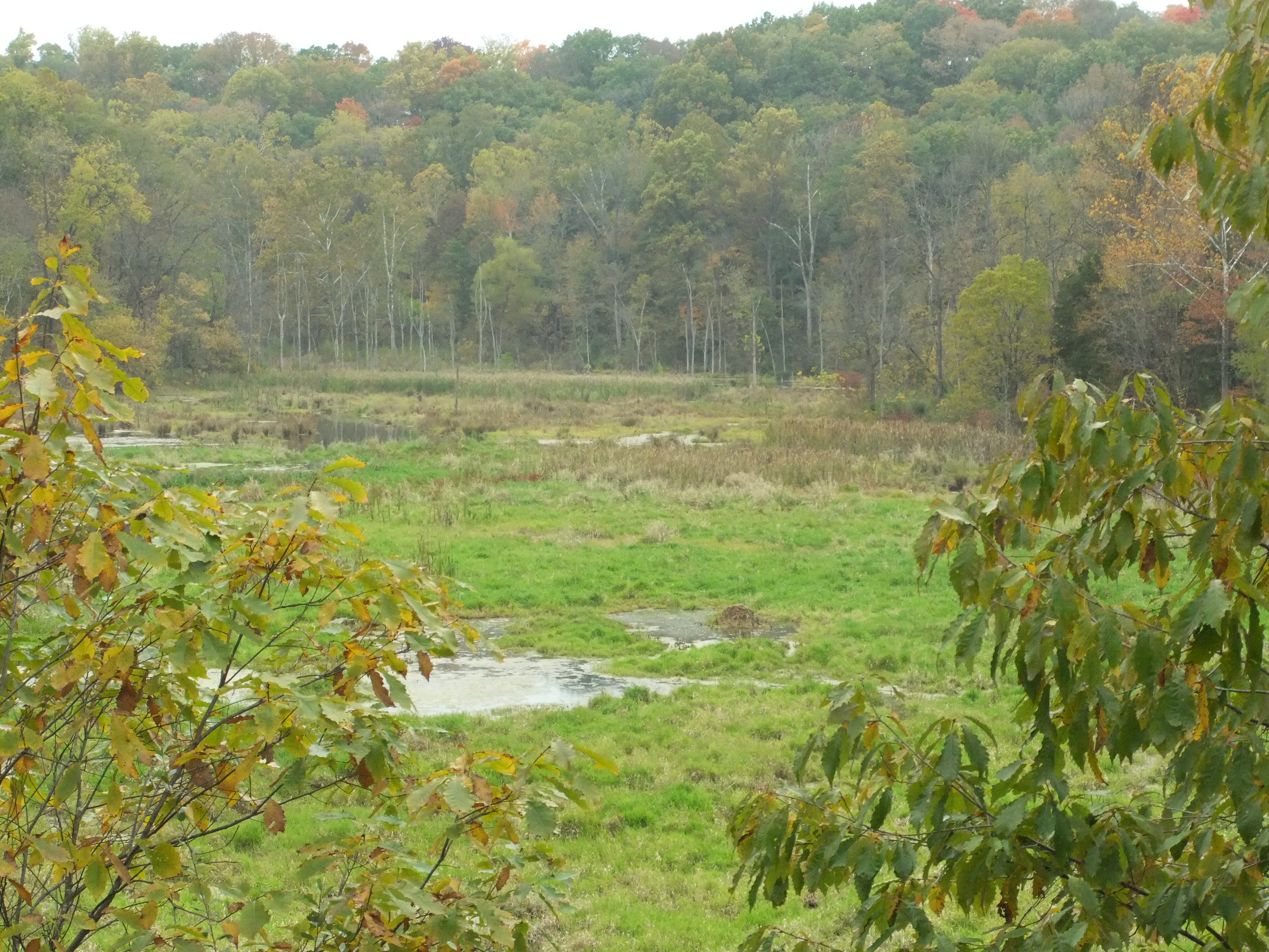 The (defunct) Leonard Springs Reservoir, seen from its dam.